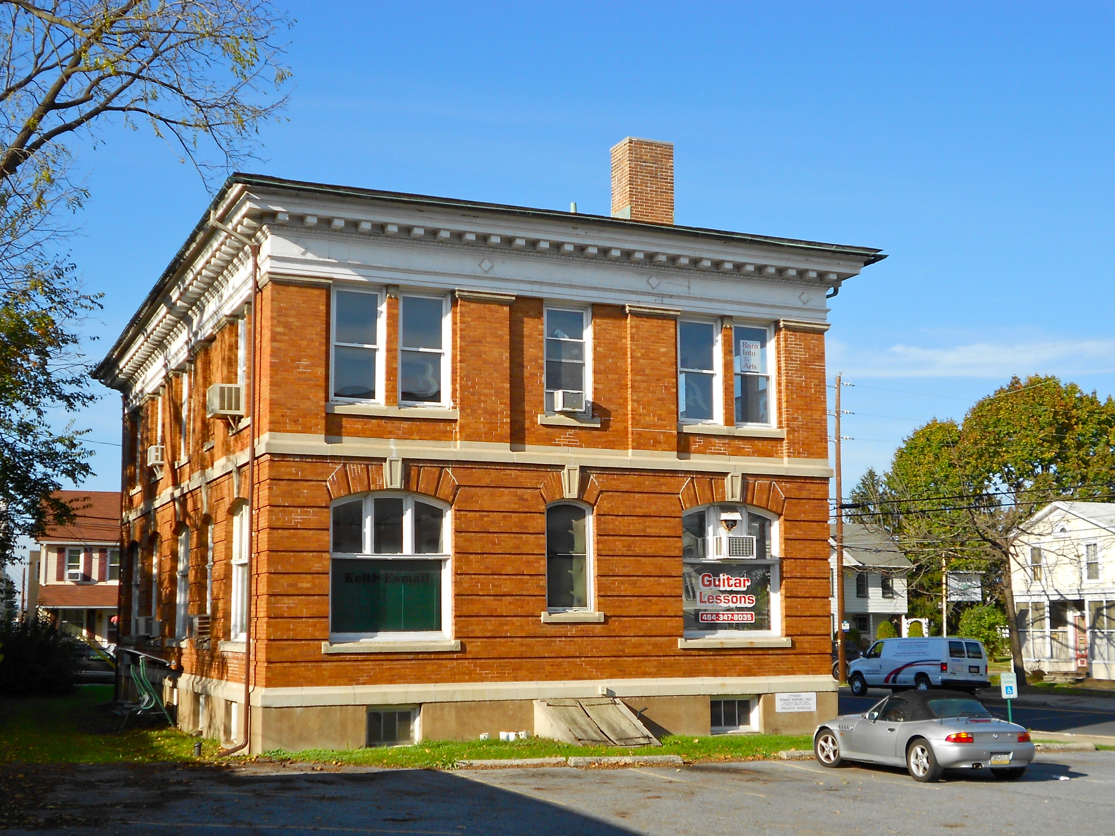 Headquarters building of the Dent Hardware Company Factory Complex. The large complex was added to the NRHP on August 21, 1986. At 1101 3rd Street, Fullerton, Whitehall Township, Lehigh County, Pennsylvania, about 5 miles north of Allentown. 11 buildings built between 1894 and 1913